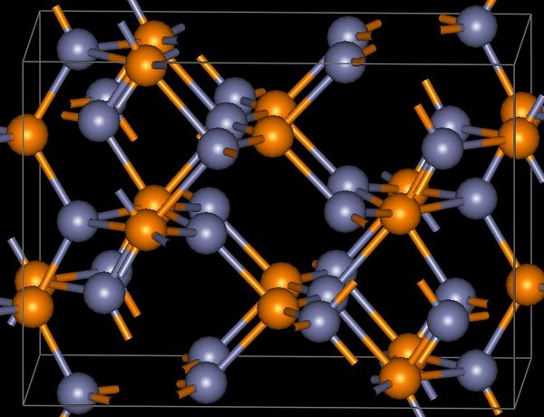 Zn3P2 structure (tetragonal). Orange atoms are phosphorus. Journal = JOURNAL OF MATERIALS SCIENCE, LONDON; Year = 1992; Volume = 27; Page = 4389–4392; Title = Preparation and characterization of Zn3P2-Cd3P2 solid solutions; Authors = Rao D.R., Nayak A.